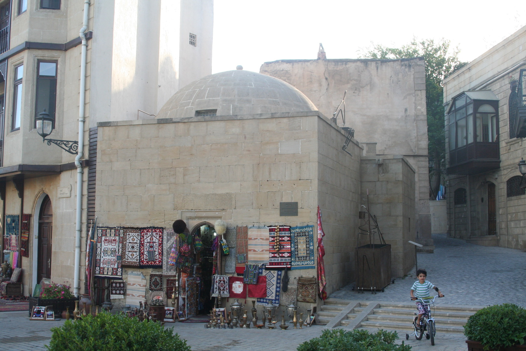 School-mosque (Ichery Sheher)